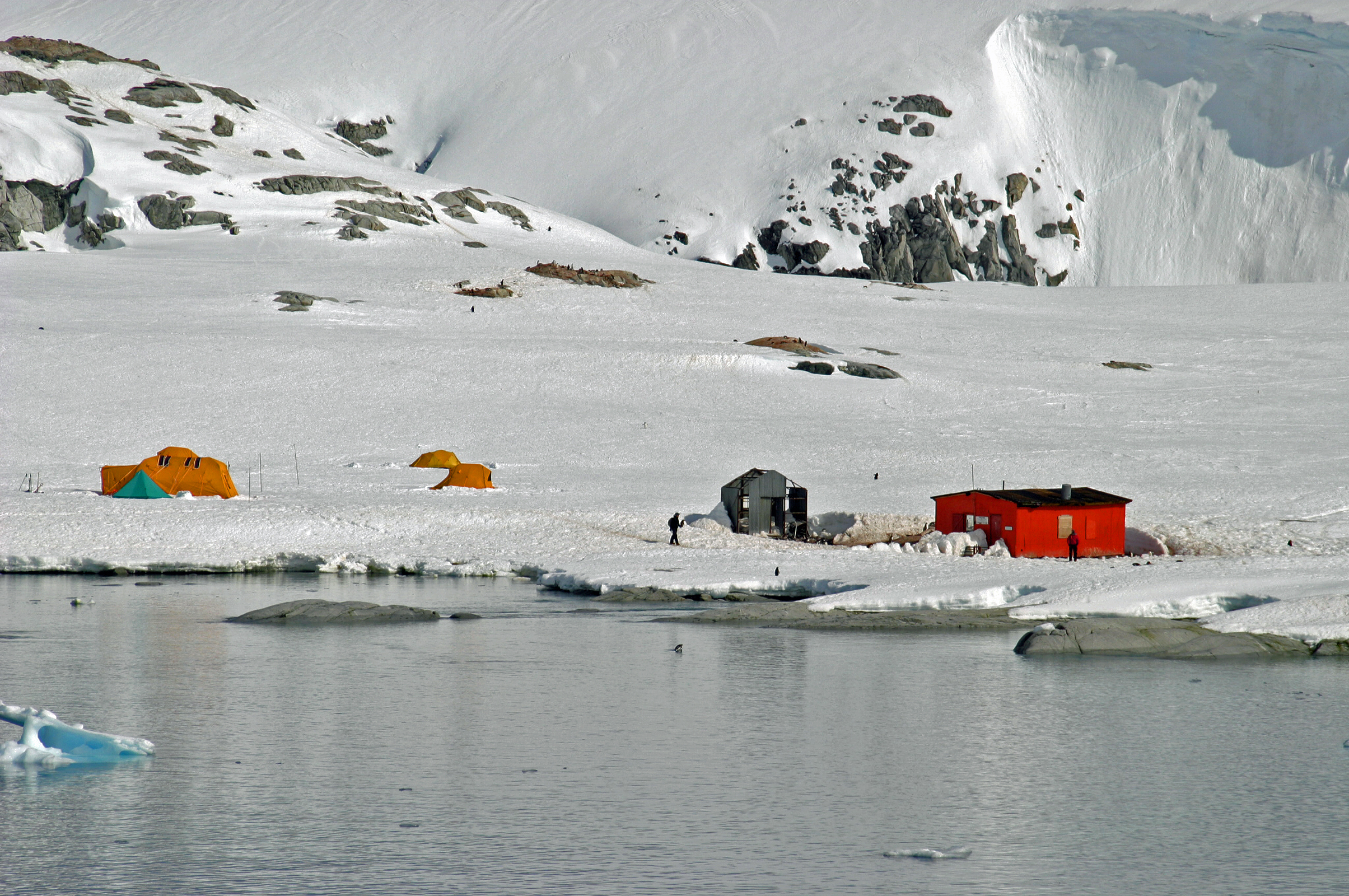 Petermann Island, a small island off the Antarctic Peninsula. The uninhabited Groussac Hut is occasionally used by the crew of the nearby Vernadsky Research Station.